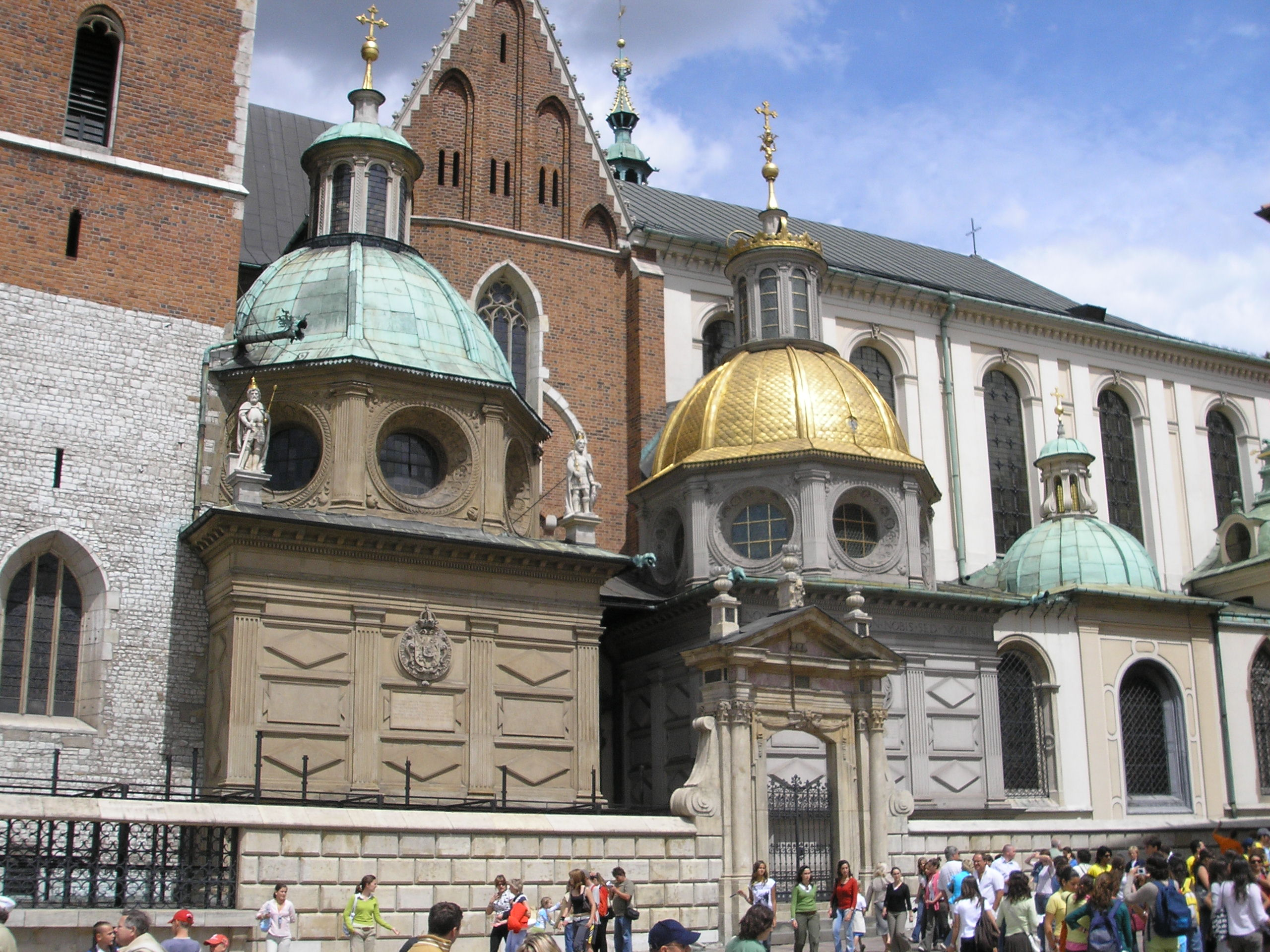 Royal chapels of Wawel Castle in Kraków.